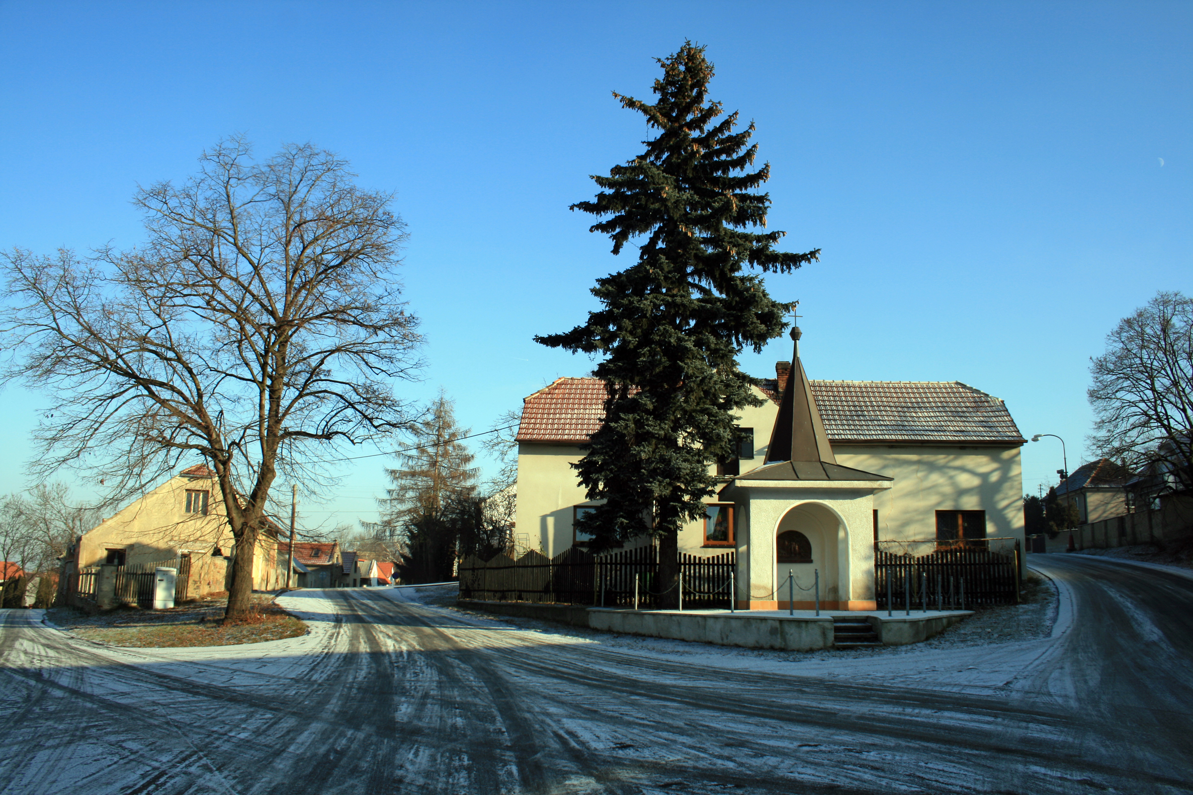 Centrum of small village Zlosyň near of Mělník, central Bohemia, Czech Republic